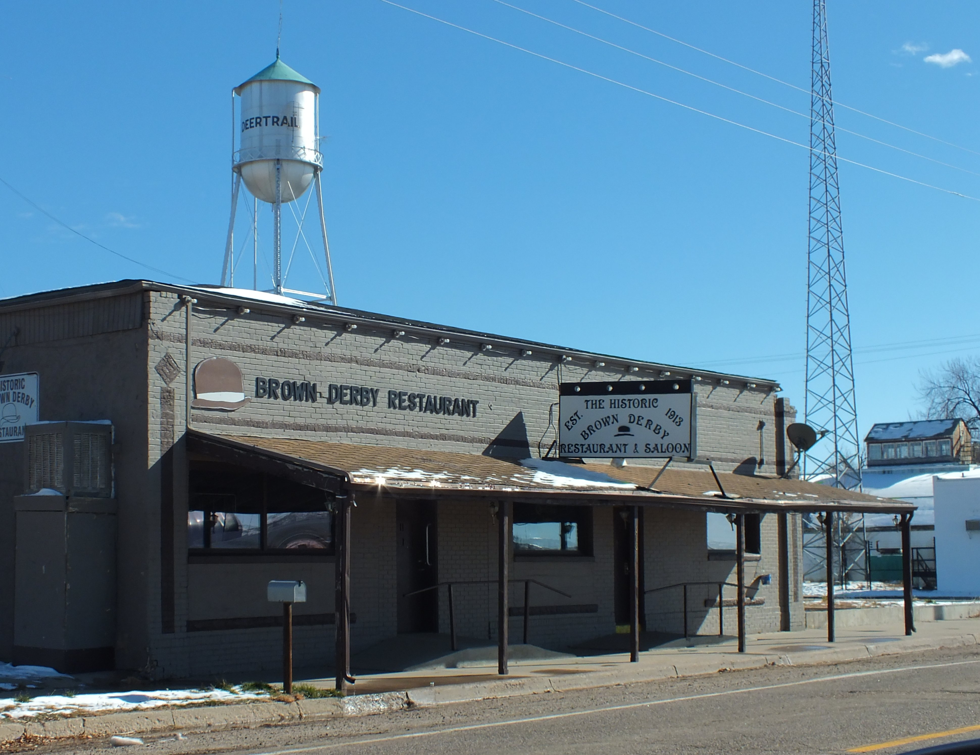 Deer Trail, Colorado